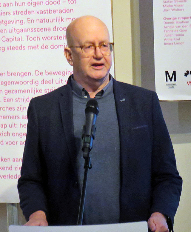 Theo van der Meer (born November 15, 1950), a Dutch gay historian, here speaking during a presentation at the LGBT archive IHLIA in Amsterdam on January 16, 2019.